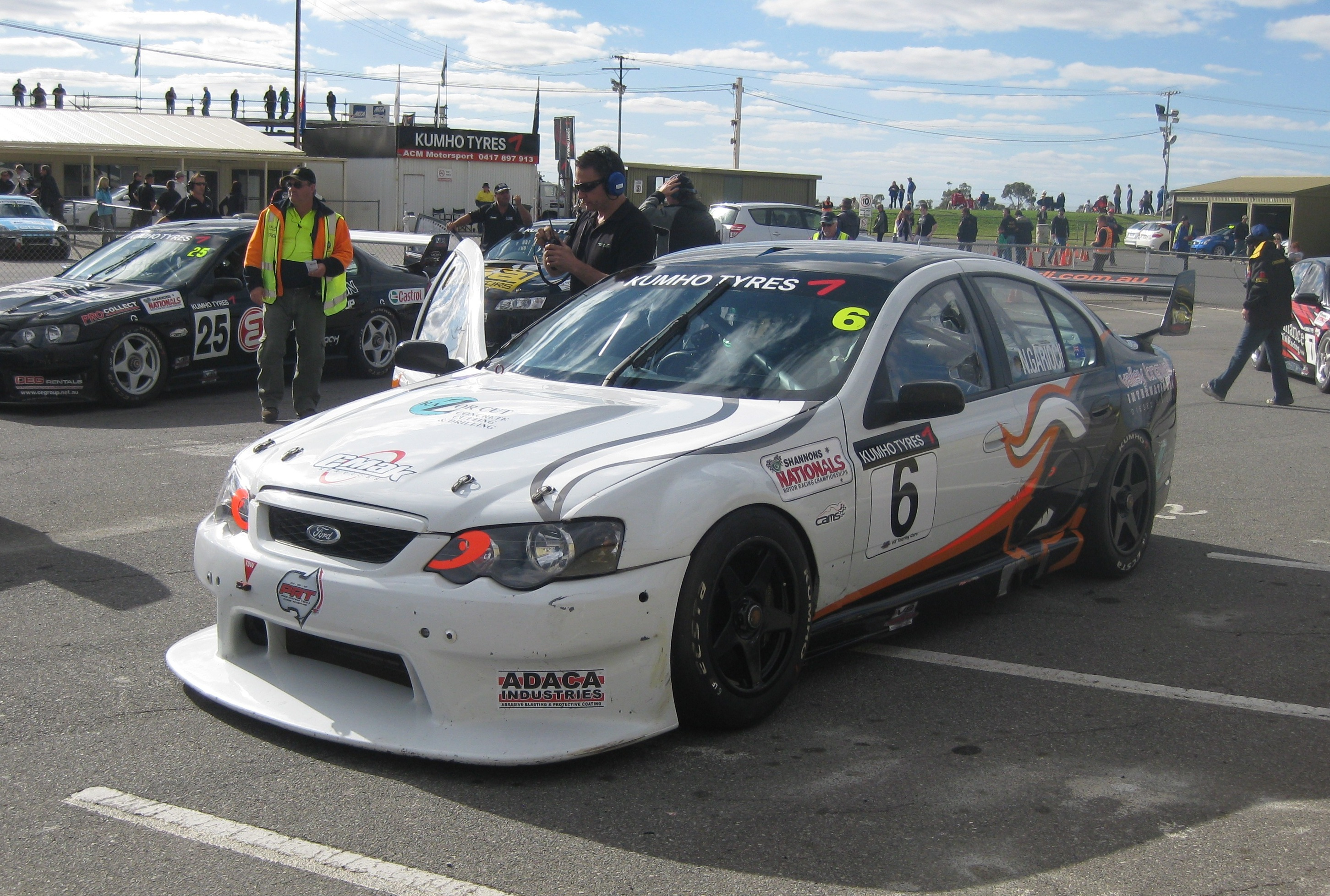 The Ford BA Falcon of Nathan Garioch at Mallala Motor Sport Park for Round 2 of the 2011 Kumho V8 Touring Car Series